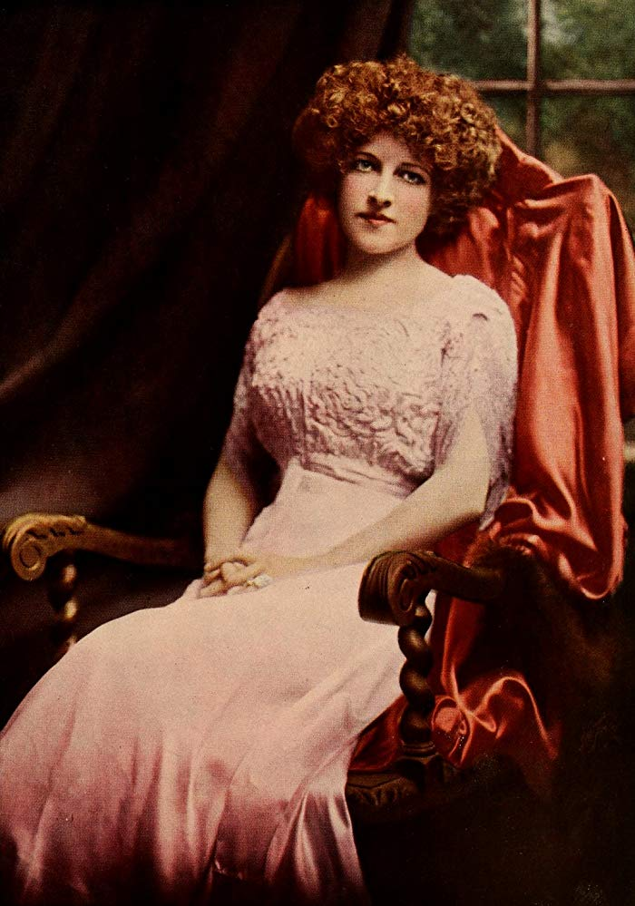 Still frame from As in a Looking Glass, colored